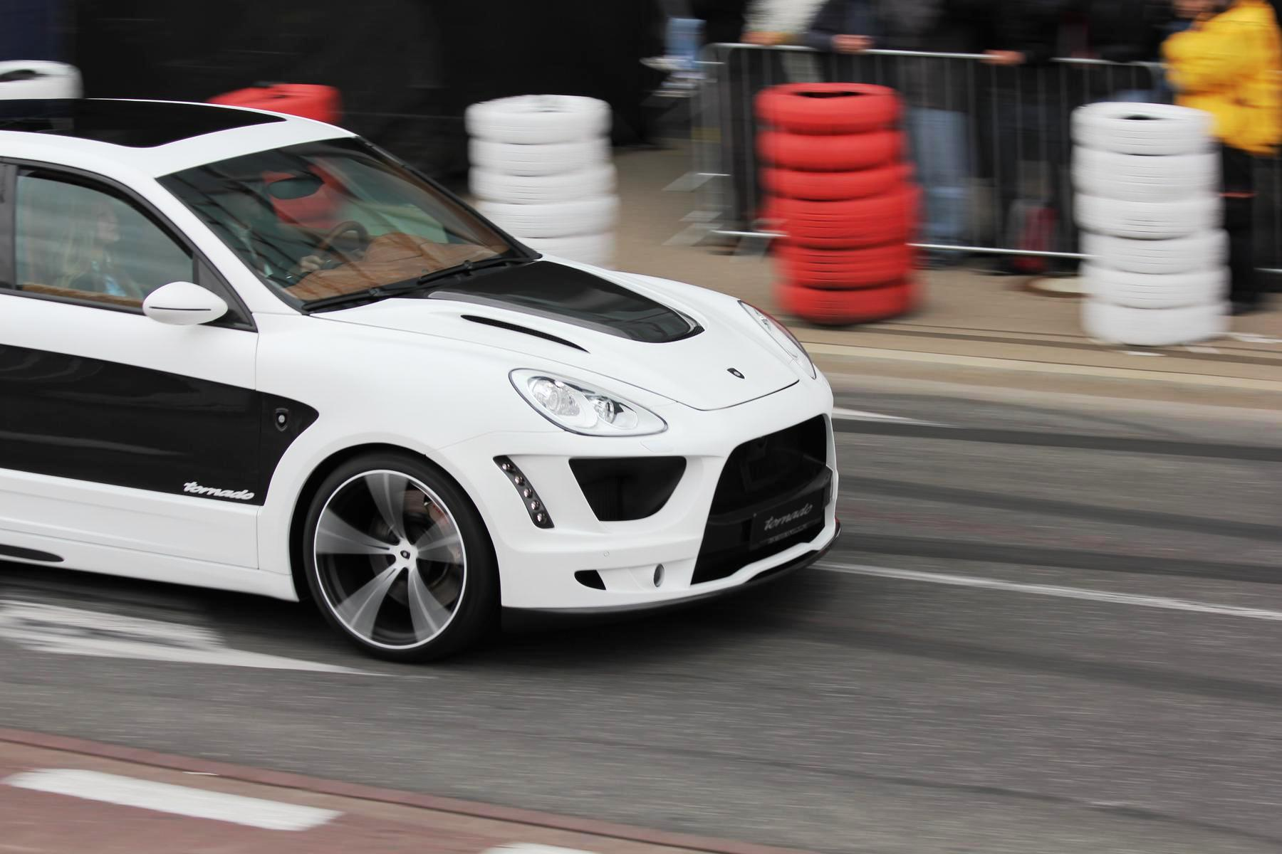 Picture was shot in Warsaw, Poland in 2012 at the VERVA Street Racing Event